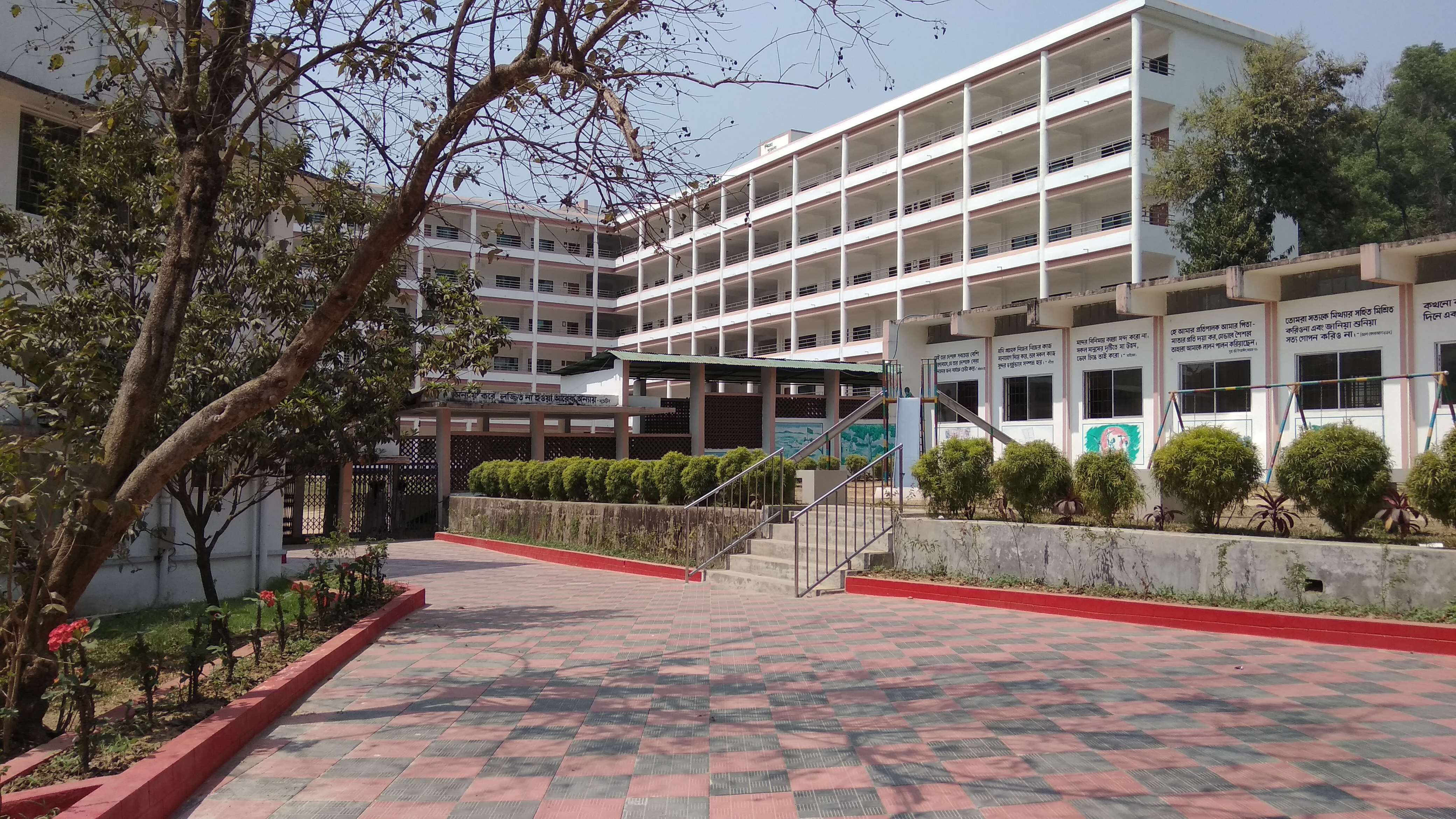 The image is about a architectural building. The building is the college section of Chittagong Cantonment Public College. The building is L shaped. And in right side, the primary section is also visible.